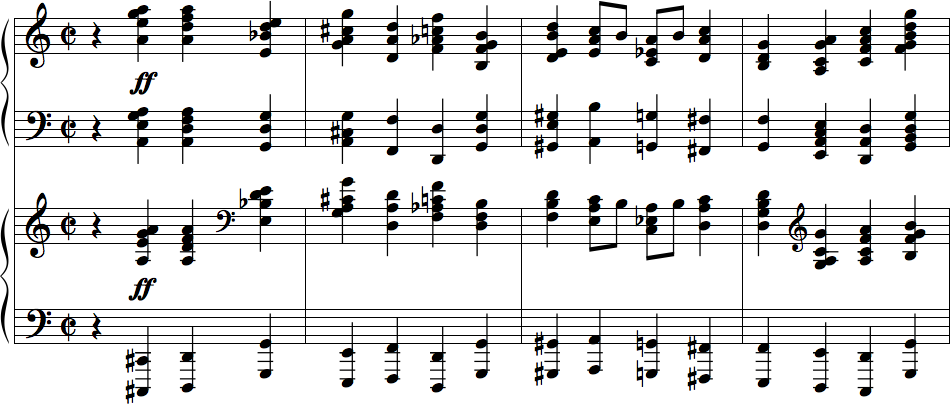 Suite No. 2, Mvt. 1 (Introduction), composed by Sergei Rachmaninoff